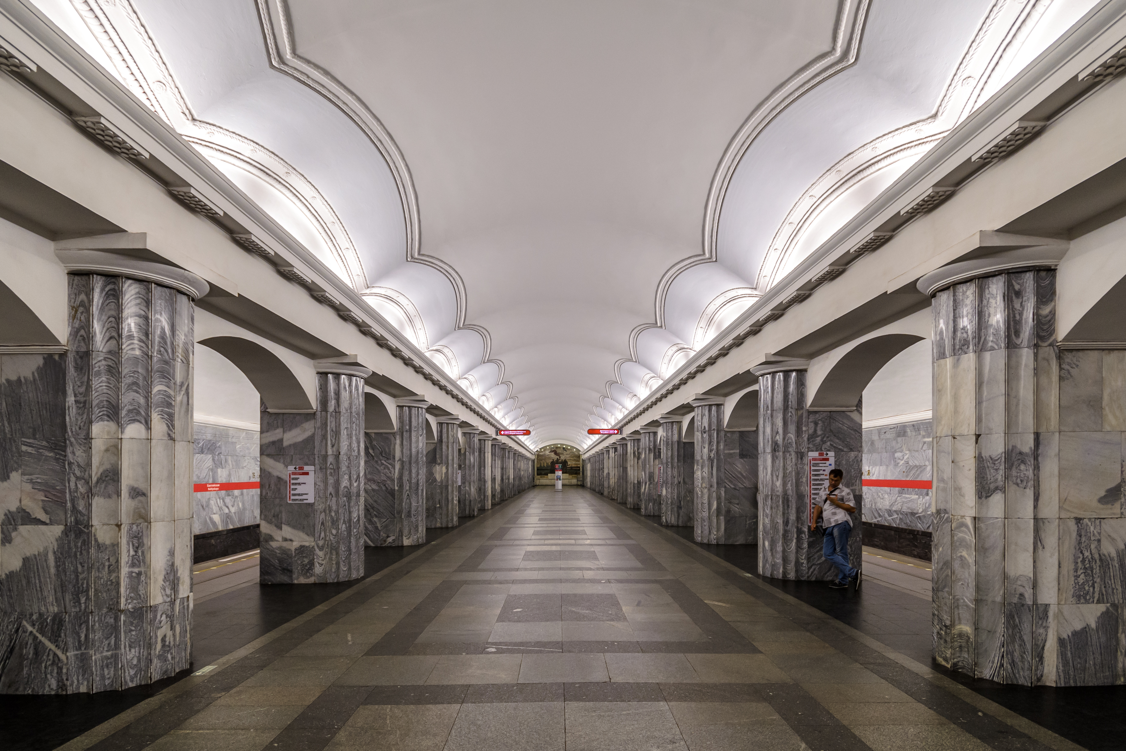 Baltyskaya station of Saint Petersburg Subway